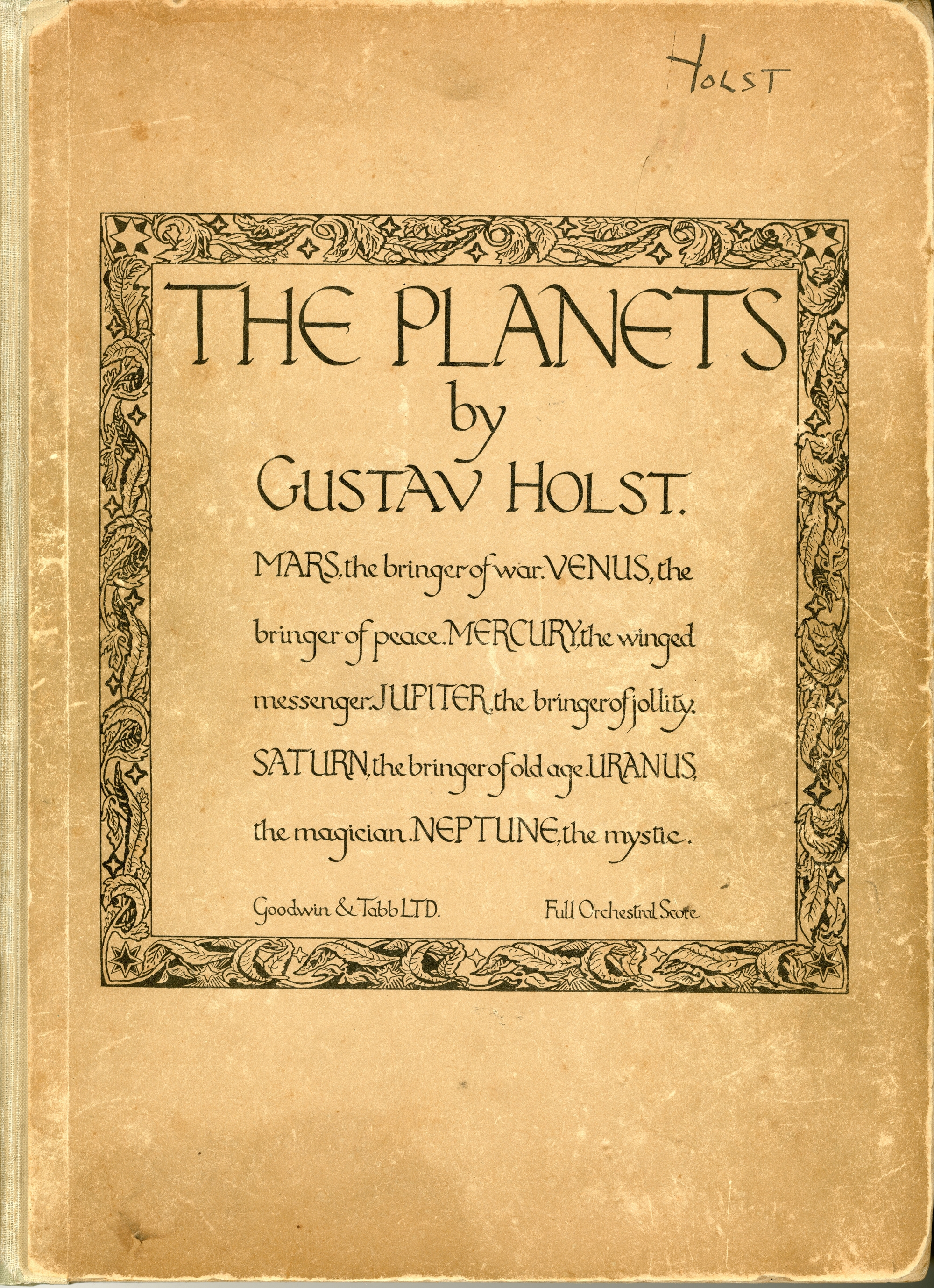 Presumably front cover of a sheet music of The Planets by Gustav Holst. One of two hundred copies of the 1921 edition.